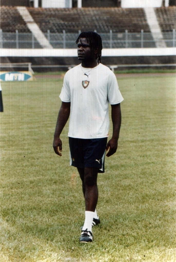 Romuald Andela, Cameroon football (soccer) player